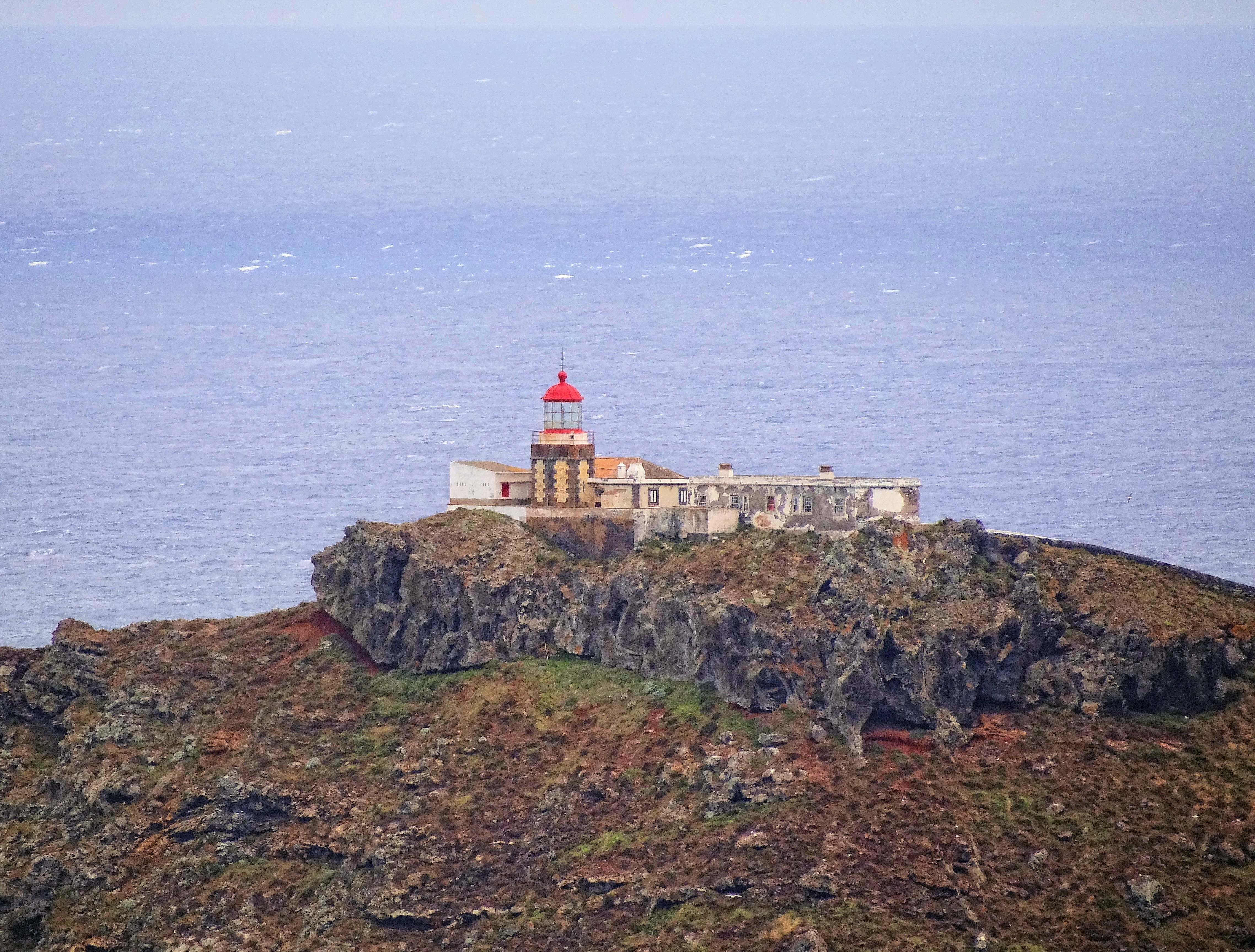 Farol da Ponta de São Lourenço, at the eastern-most point of Madeira island (Portugal).